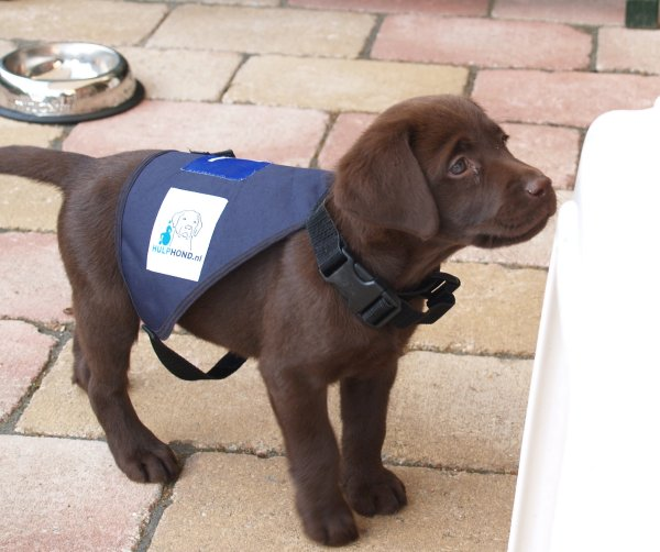 Puppie Anita